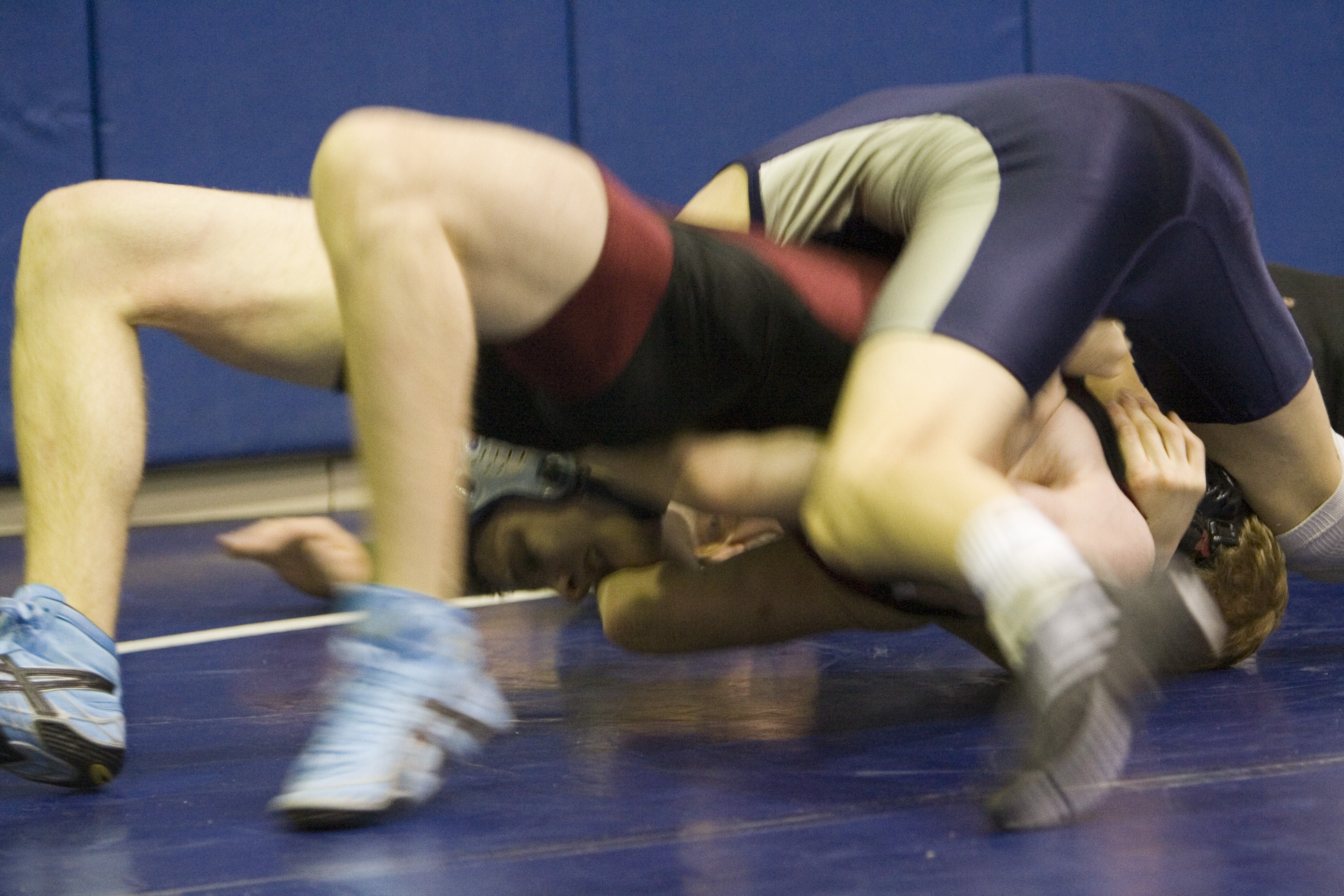 Two high school students wrestling (collegiate, scholastic, or folkstyle) in the United States.